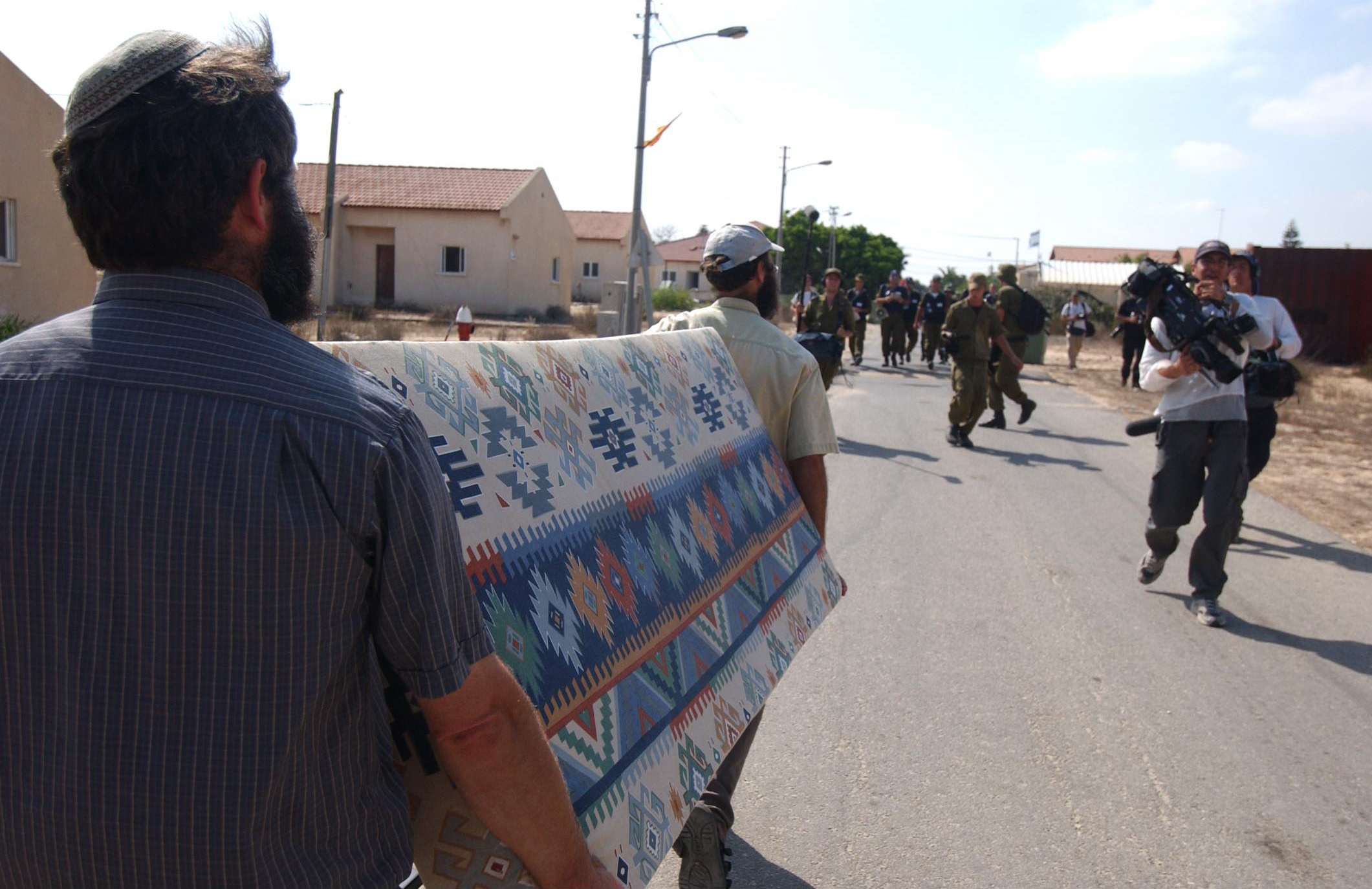 August 17, 2005. The evacuation of the Israeli community Bedolach. The evacuation of Bedolach was part of the Gaza Disengagement, which took place during the summer of 2005.